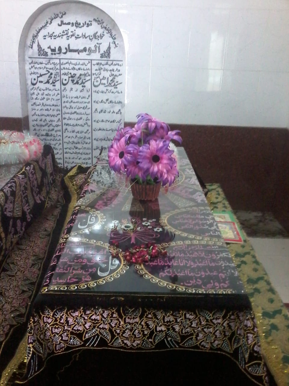 Pir syed Amin Shah Sani sahib,s grave in Allo Mahar Shreef.